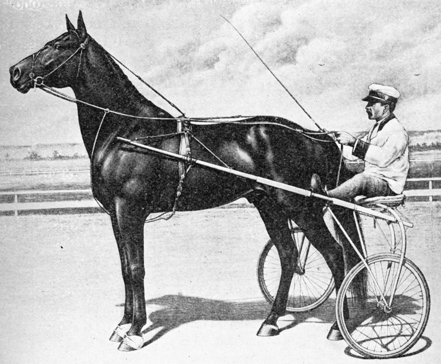 Dan Patch engraving, of a Standardbred trotting horse